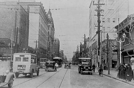 Sakai-suji in 1930s